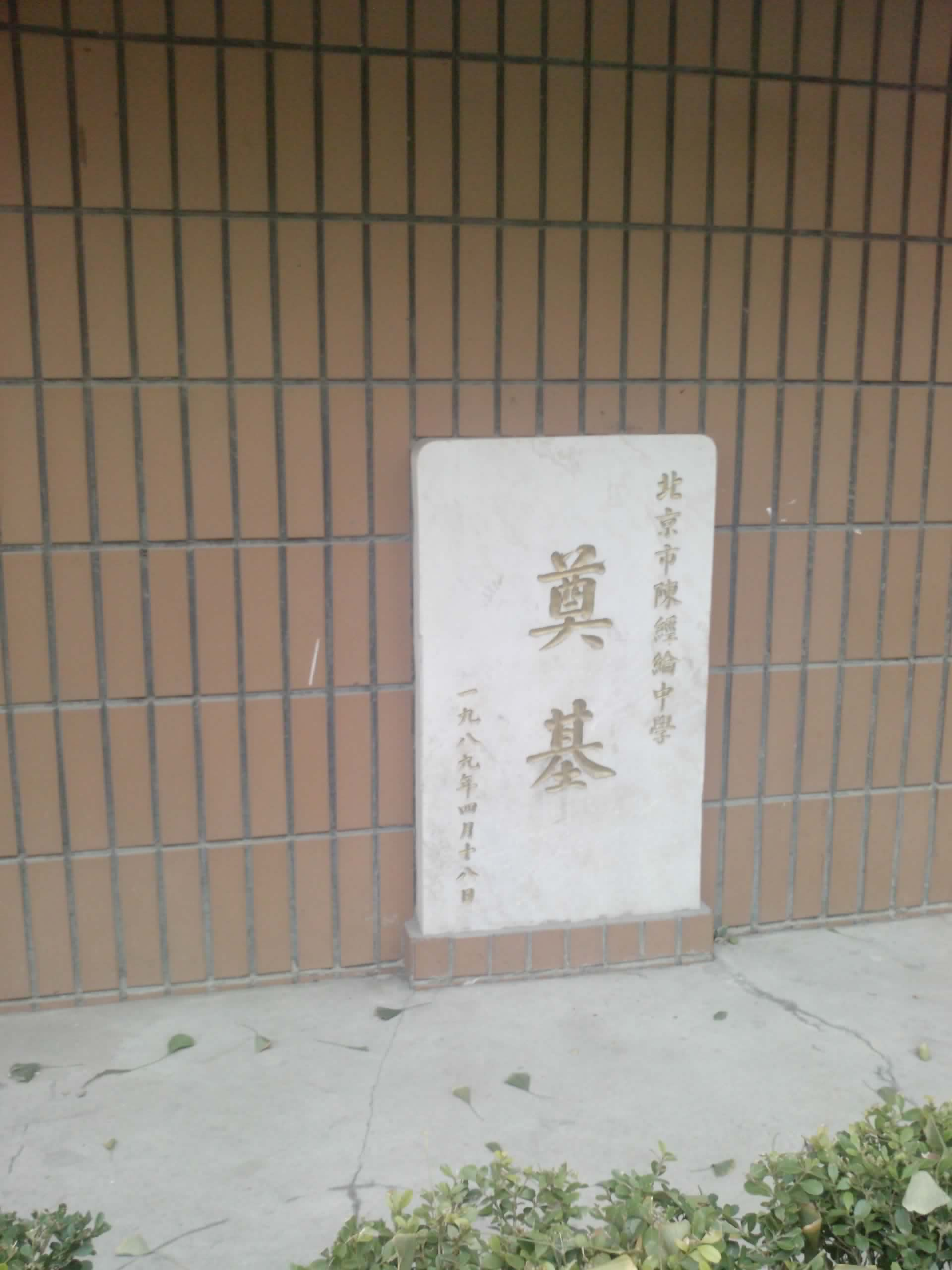 chenjinglun